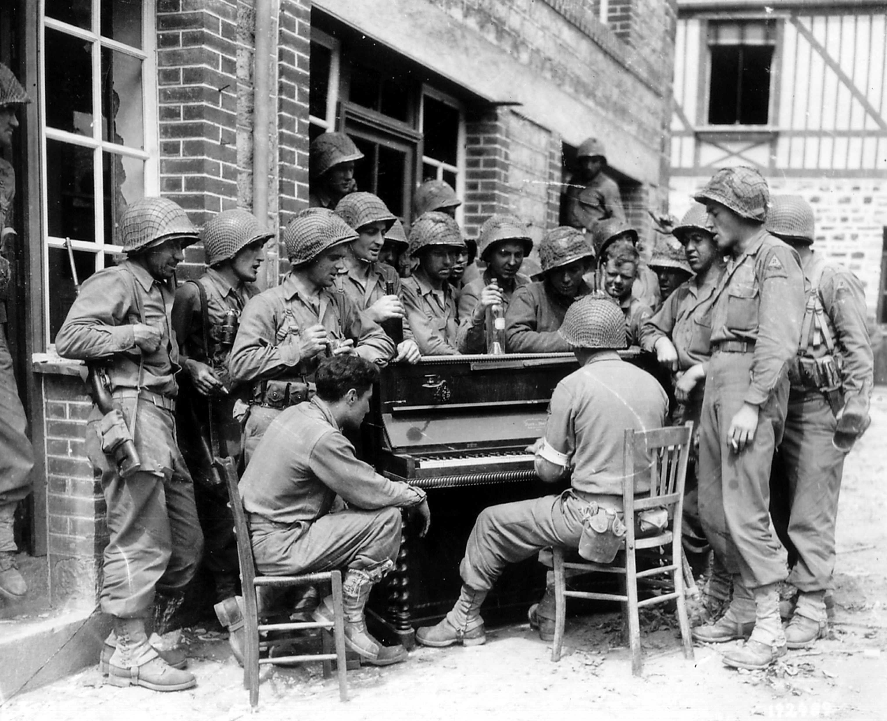 Un groupe de soldats US se sont réunis à Barenton autour d'un piano et chantent "Go to town"[1]. Soldiers of the 2nd Armored Division sing "Go to town" in Barenton